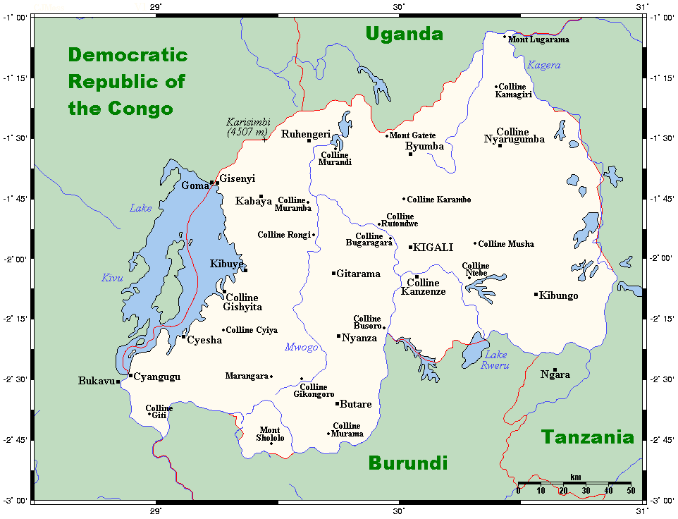 A map showing Rwanda's cities, main towns and selected villages. This map's source is here, with the uploader's modifications, and the GMT homepage says that the tools are released under the GNU General Public License.